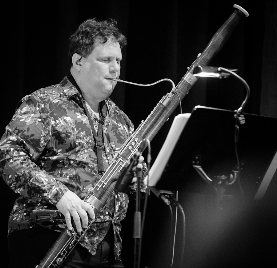 Paul Hanson in a concert with Billy Cobham at Cosmopolite. The concert took place on 09. March 2019 in Oslo. Lineup: Billy Cobham (drums) Paul Hanson (saxophone and bassoon) Fareed Haque (guitar) Tim Landers (bass guitar) Scott Tibbs (synthesizer and rhodes)